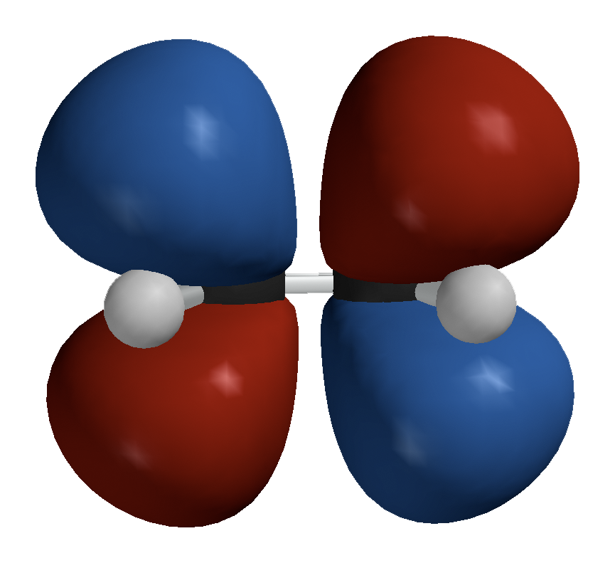 Space-filling model of the LUMO of ethylene. Structure calculated and image produced using HF/6-31G* in Spartan '04 Student Edition.